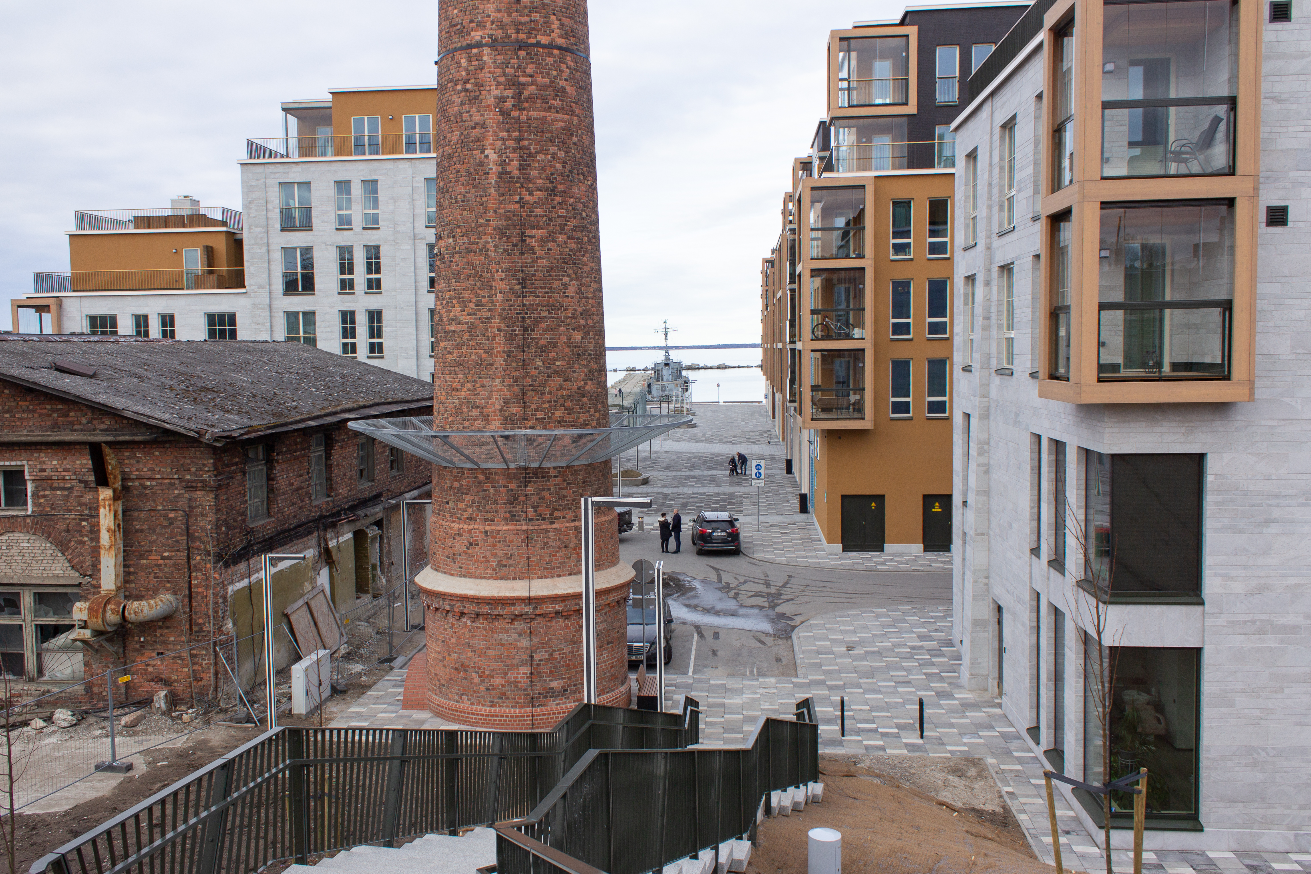 Staapli Street in Tallinn (Estonia), view from the Kalaranna Street, Noblessneri Quarter, March 2019